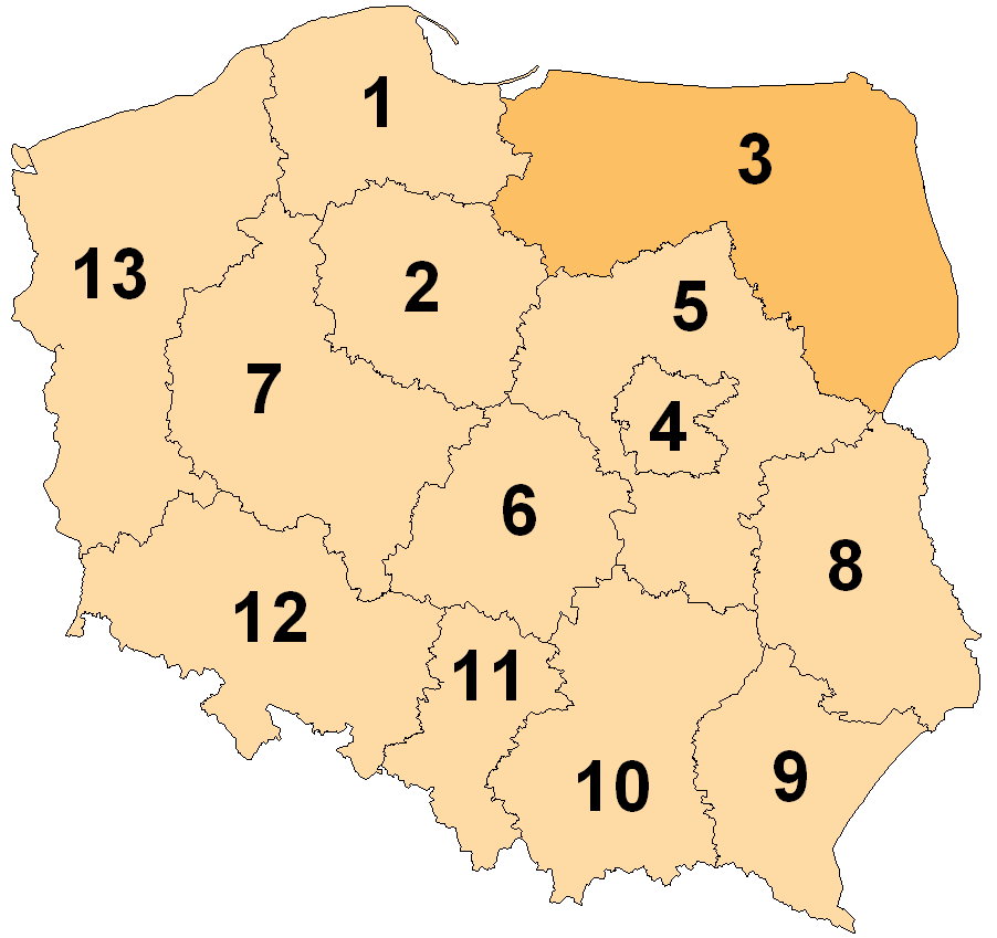 Podlaskie and Warmian-Masurian (European Parliament constituency) - European Parliament constituencie in Poland